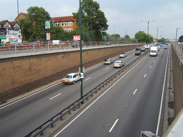 A3 at Hook looking east.